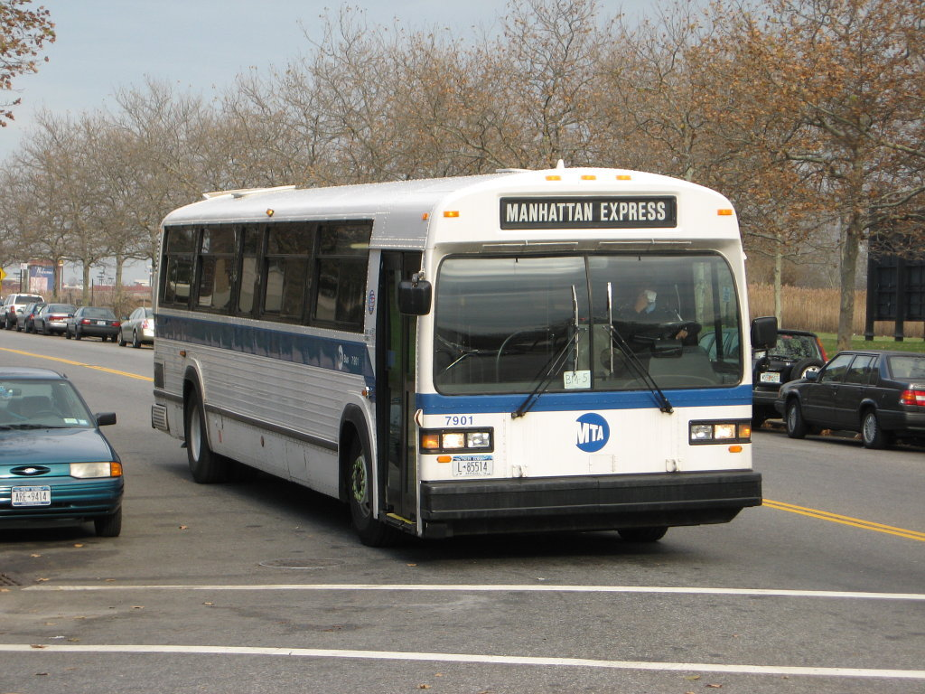 MTA Bus MCI Classic #7901 (ex-Liberty Lines #3106) is about to enter service on the BM5 line in Spring Creek, Brooklyn, NY. This vehicle has since been sold for scrap, and no longer exists.